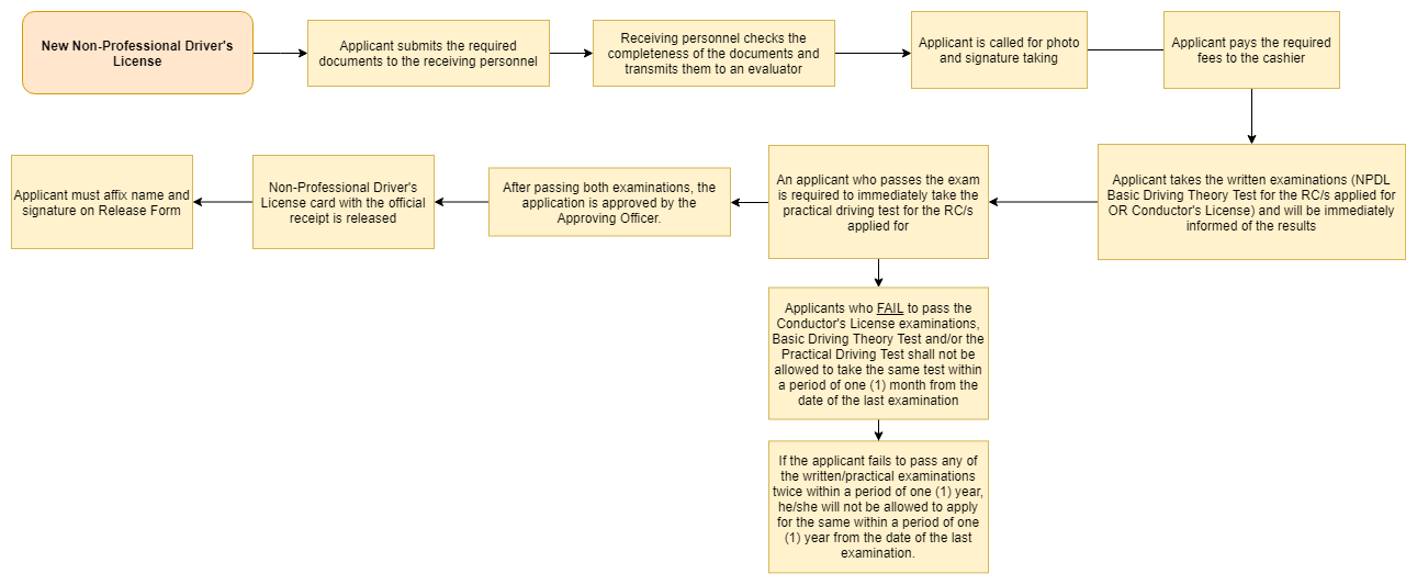 A chart that shows the full procedure in applying for a non-professional driver's license and additional restriction codes in the Philippines, under the Land Transportation Office. Information found on the chart could be found on the LTO website.